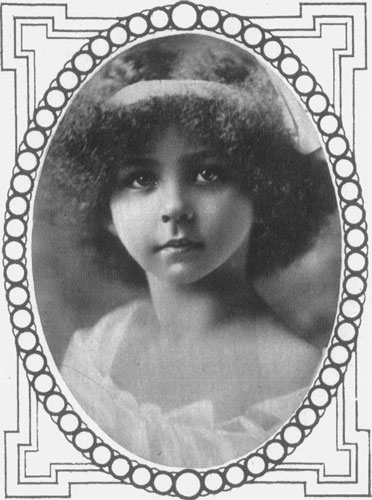 Marie-José of Belgium, aged 9